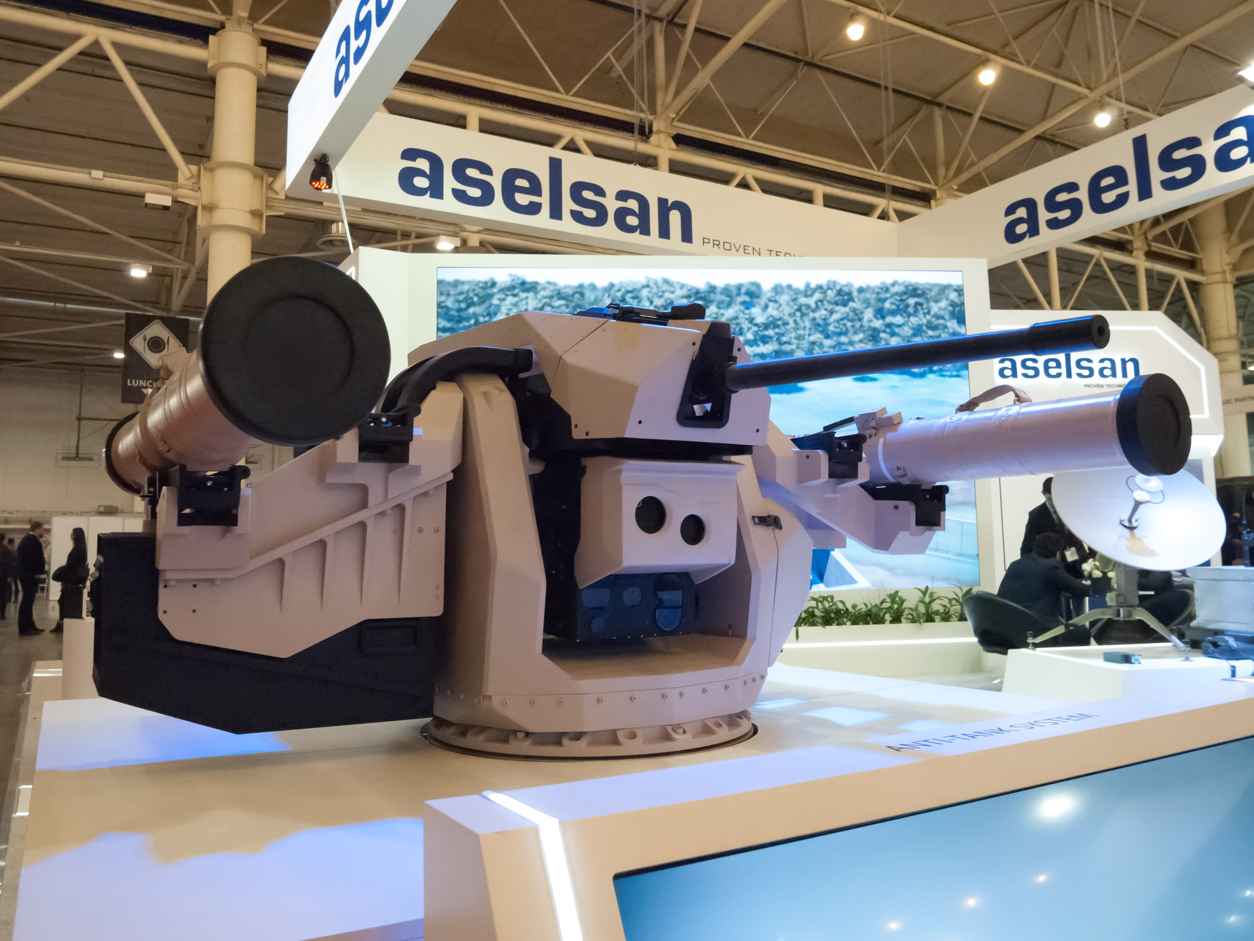 Aselsan (Turkey) remote weapon system with R-2S ATGMs by KB Luch (Ukraine). 'Zbroya ta Bezpeka' military fair, Kyiv, Ukraine, 2018